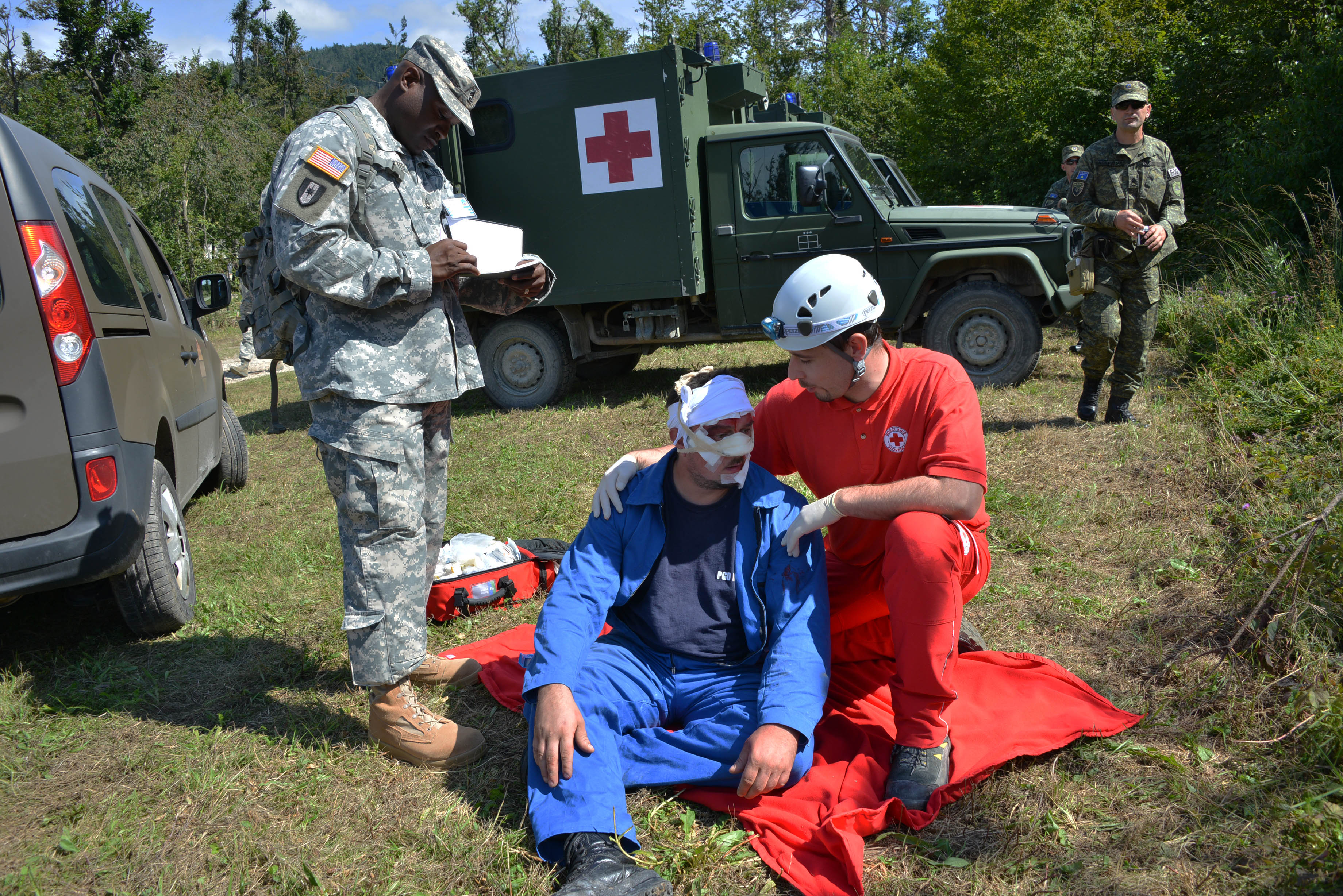 U.S. Army Sgt. 1st Class Ahmad Whitted, standing, an observer-controller, monitors the interaction between a role player and a Slovenian Civilian Protection agent Aug. 25, 2014, in Postojna, Slovenia, during Immediate Response 14. Immediate Response is a U.S. Army Europe-led combined joint tactical field training exercise designed to build interoperability between NATO, Croatia and its regional partner nations.